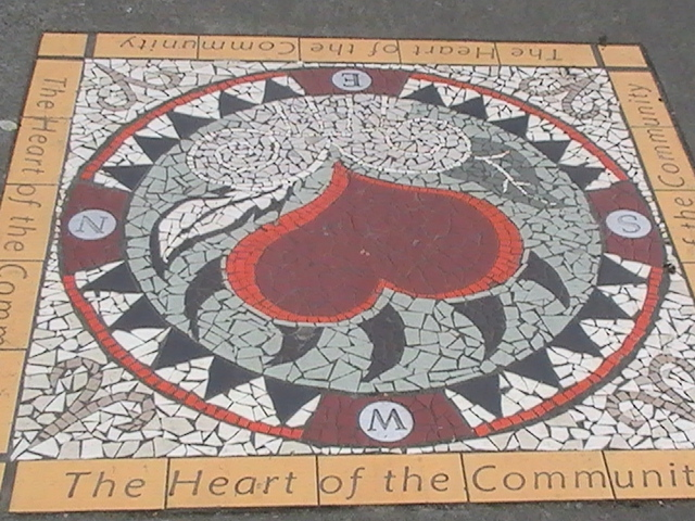 Heart of the Community mural in East Hastings